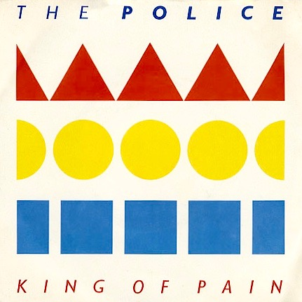 United States single cover of "King of Pain" by The Police.